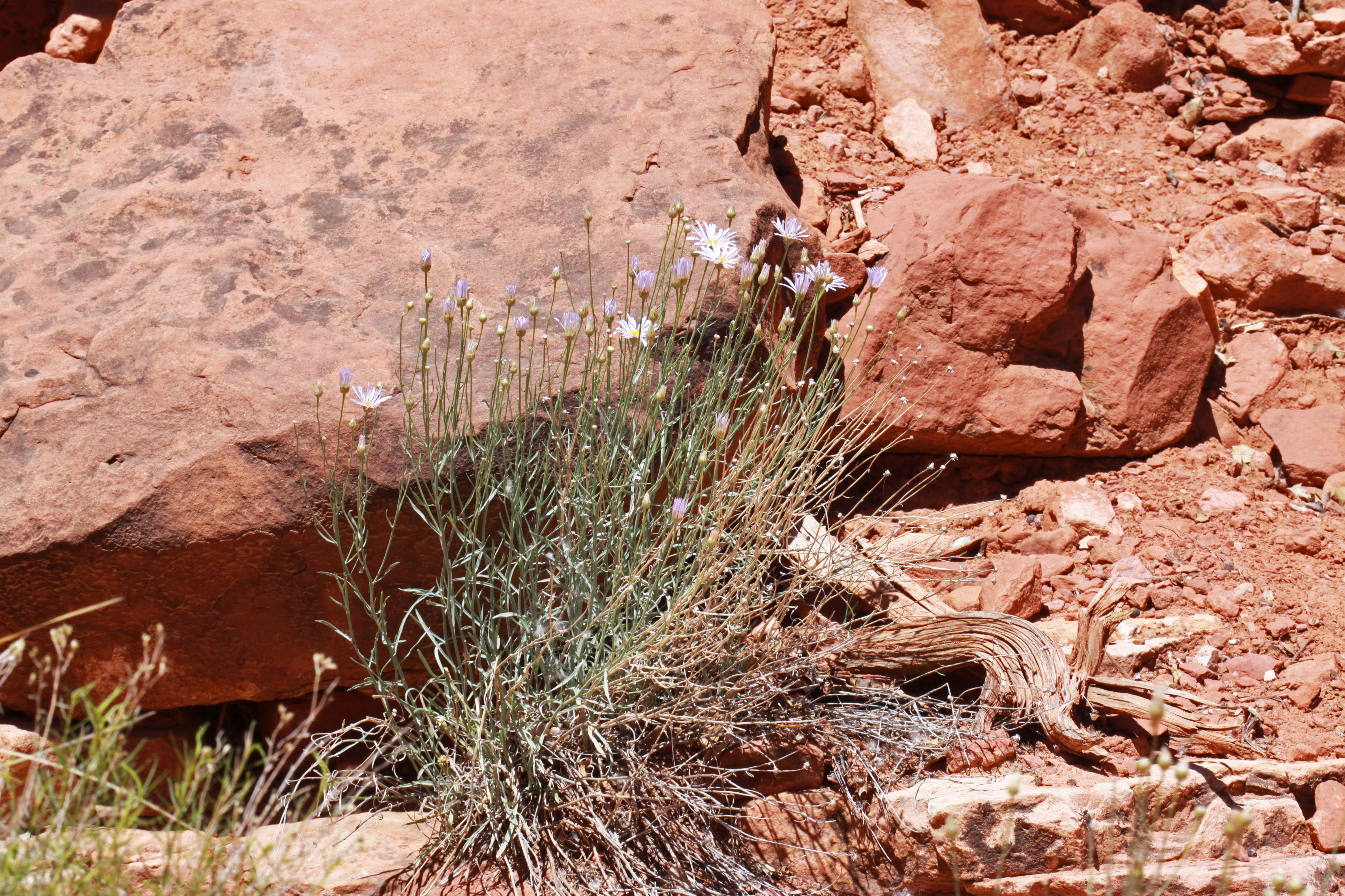 Erigeron utahensis